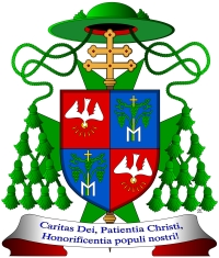 Coat of arms of Archbishop (personal title) Karel Otčenášek, Bishop of Hradec Králové